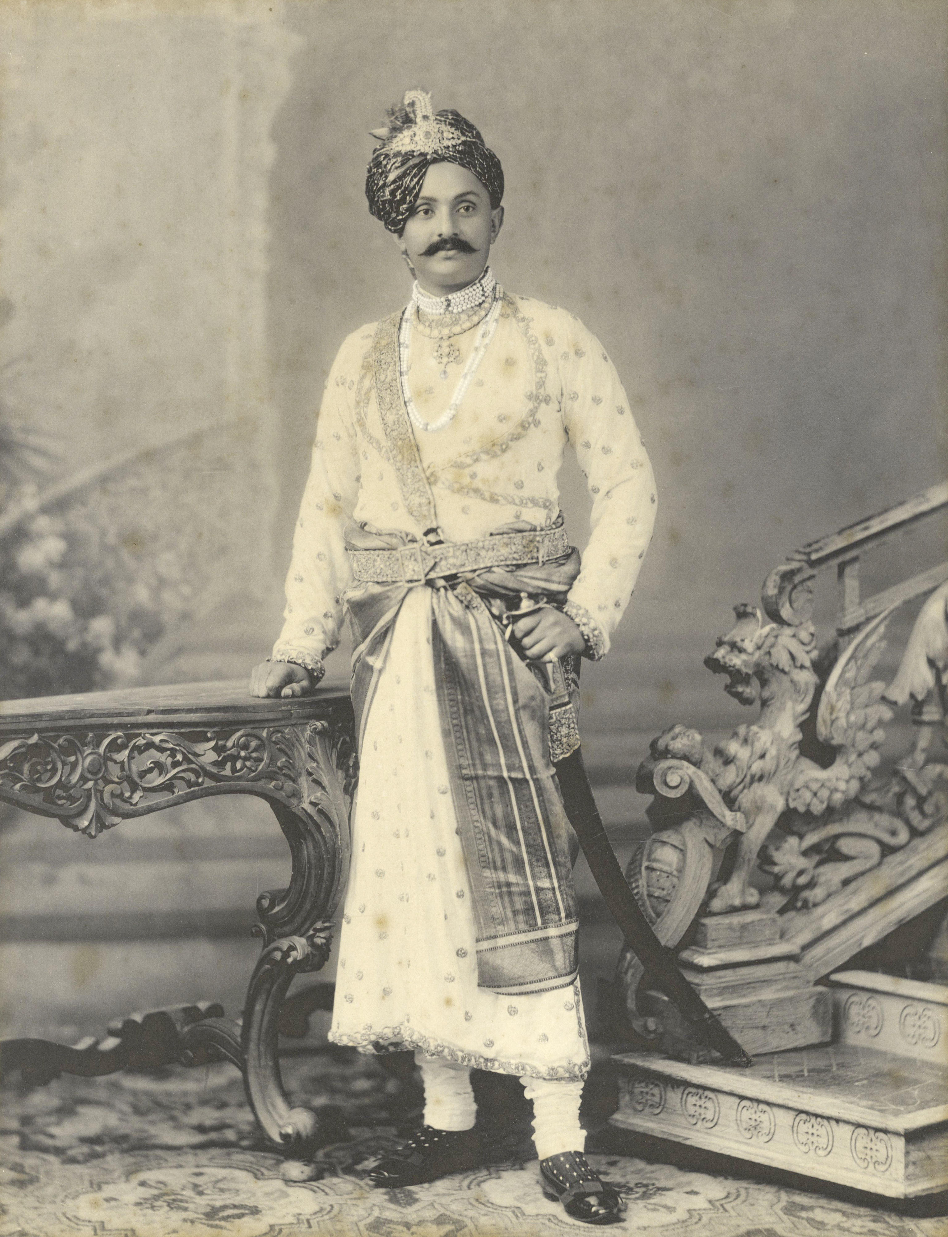 Portrait of K.S. Ranjitsinghi, the cricketing Maharaja of Nawangar, hand-tinted platinum print